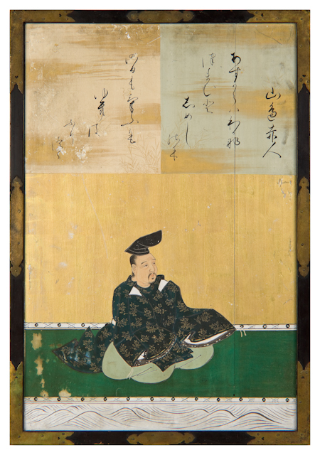 Sanjūrokkasen-gaku (Thirty-six Poetry Immortals framed picture) #6: Yamabe no Akahito